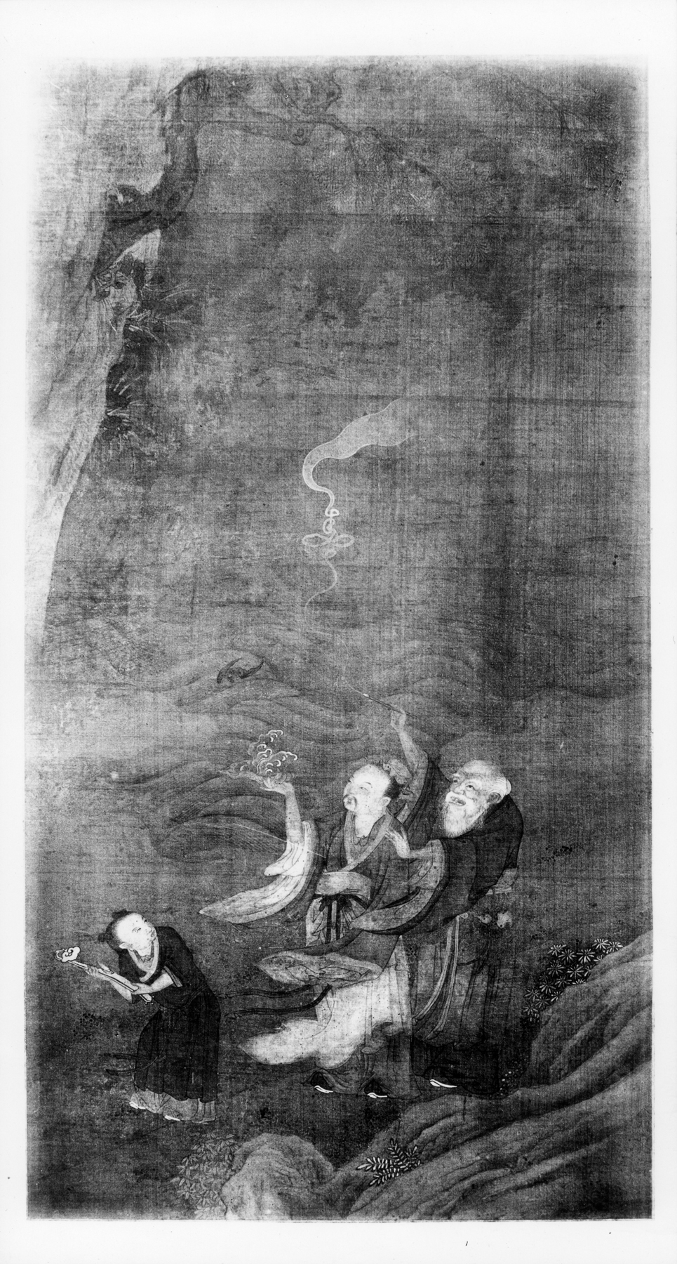 This painting depicts "nan ji lao ren [nan chi lao jen]," the symbol of longevity, accompanied by a friend and servant, offering incense to the gods.